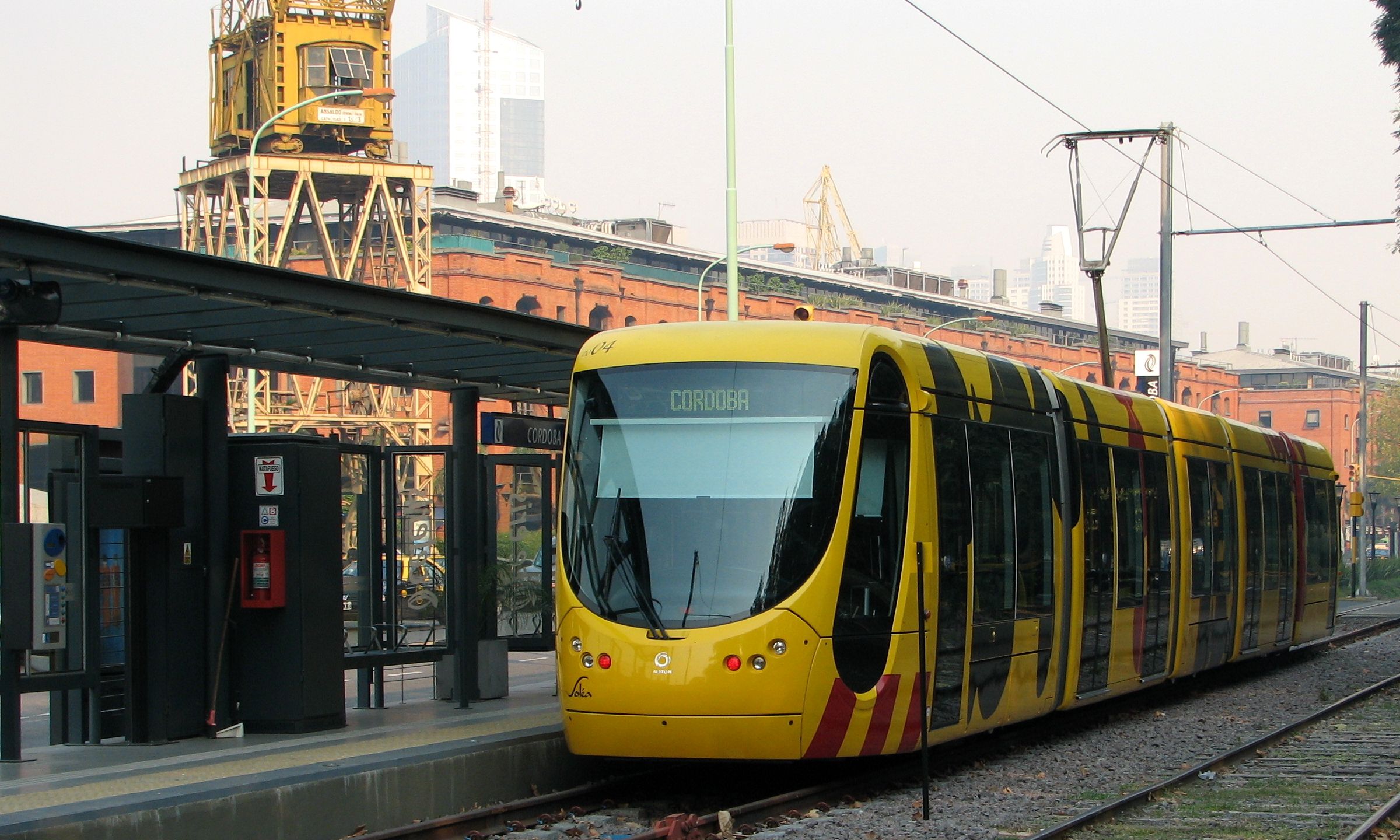 Car 04 (on loan from Mulhouse, France) on the Tranvía del Este (also known as the Puerto Madero Tramway, or the Celeris Tramway) in Puerto Madero, Buenos Aires, Argentina.